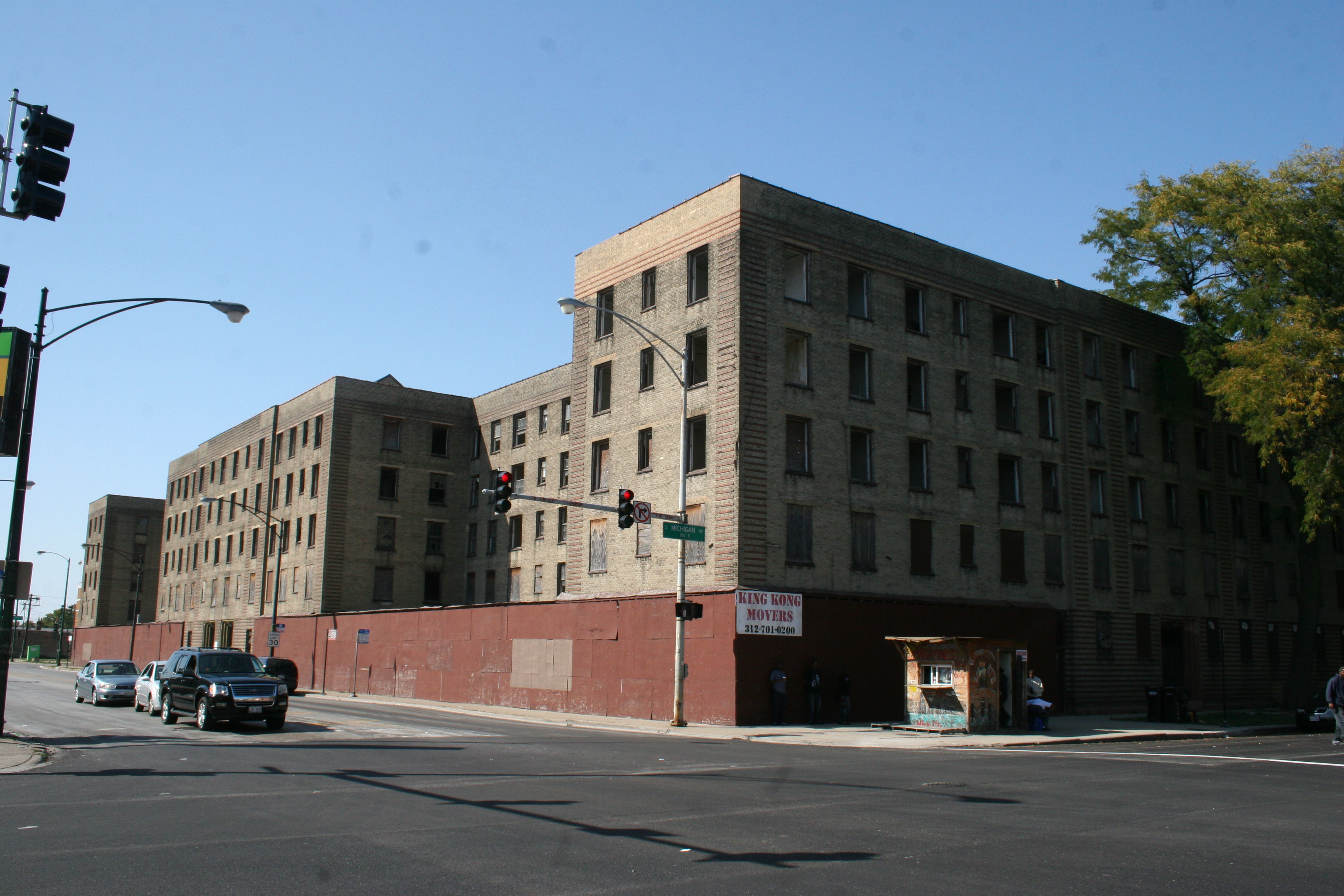 Rosenwald Apartment Building